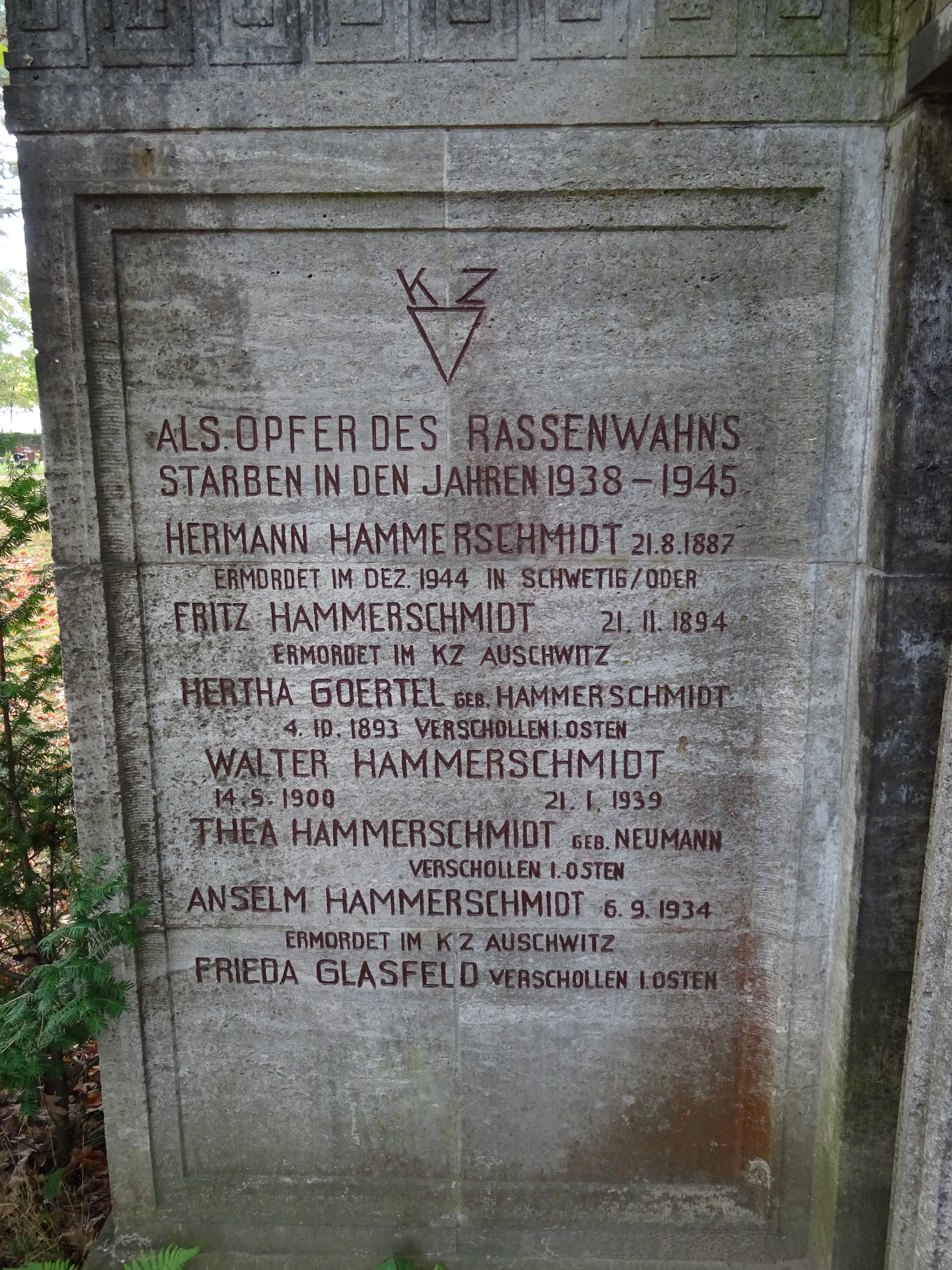 Memorial for Familiy Hammerschmidt on the New Jewish Cemetery, Cottbus.